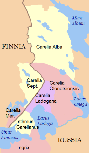 Modified picture to add Latin names. It shows the Russian and Finnish areas of Karelia